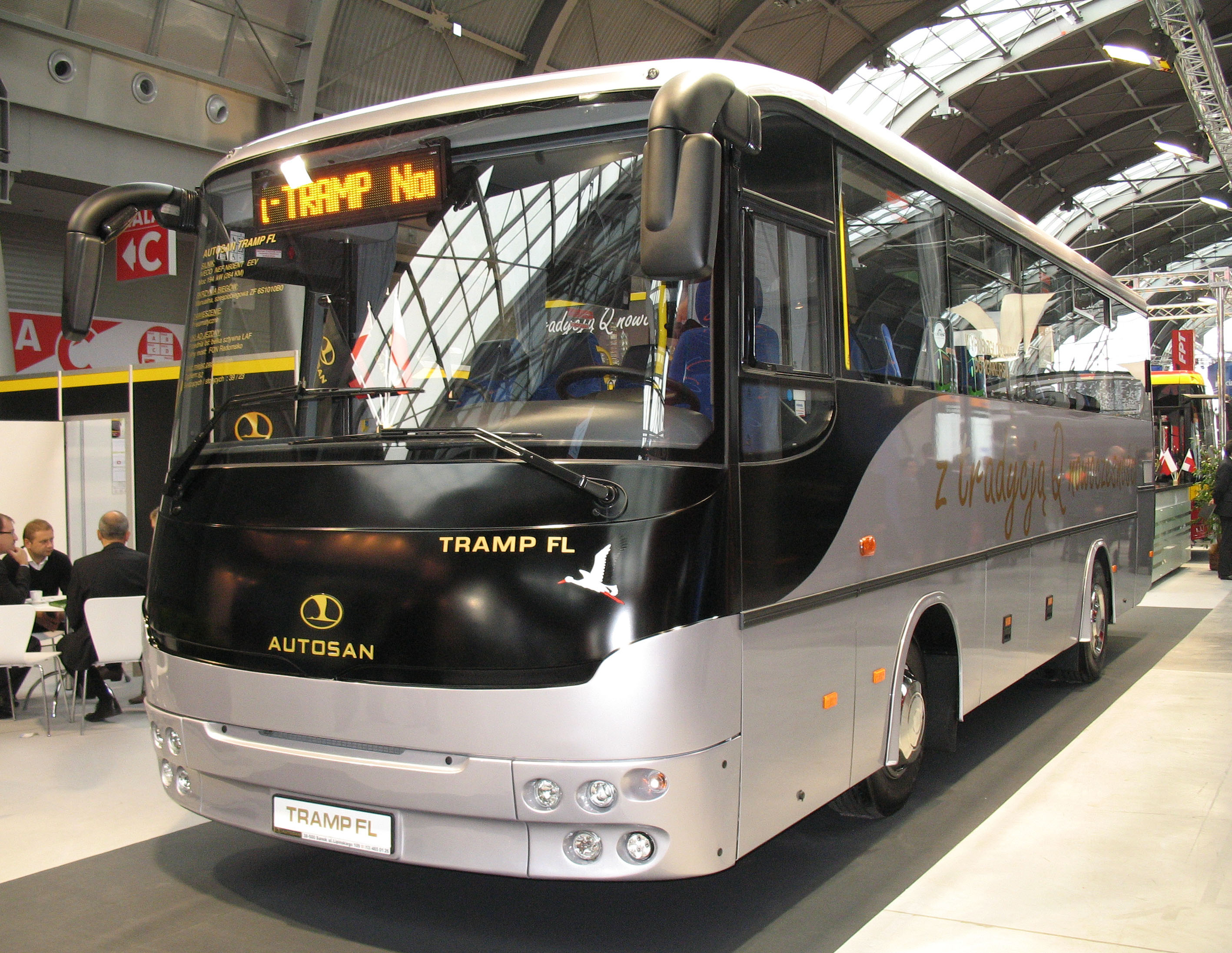 Autosan Tramp FL long-distance bus prototype in Kielce, Poland. Built 2011, Transexpo 2011.